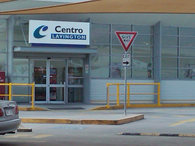 Centro Lavington upstairs parking entrence.